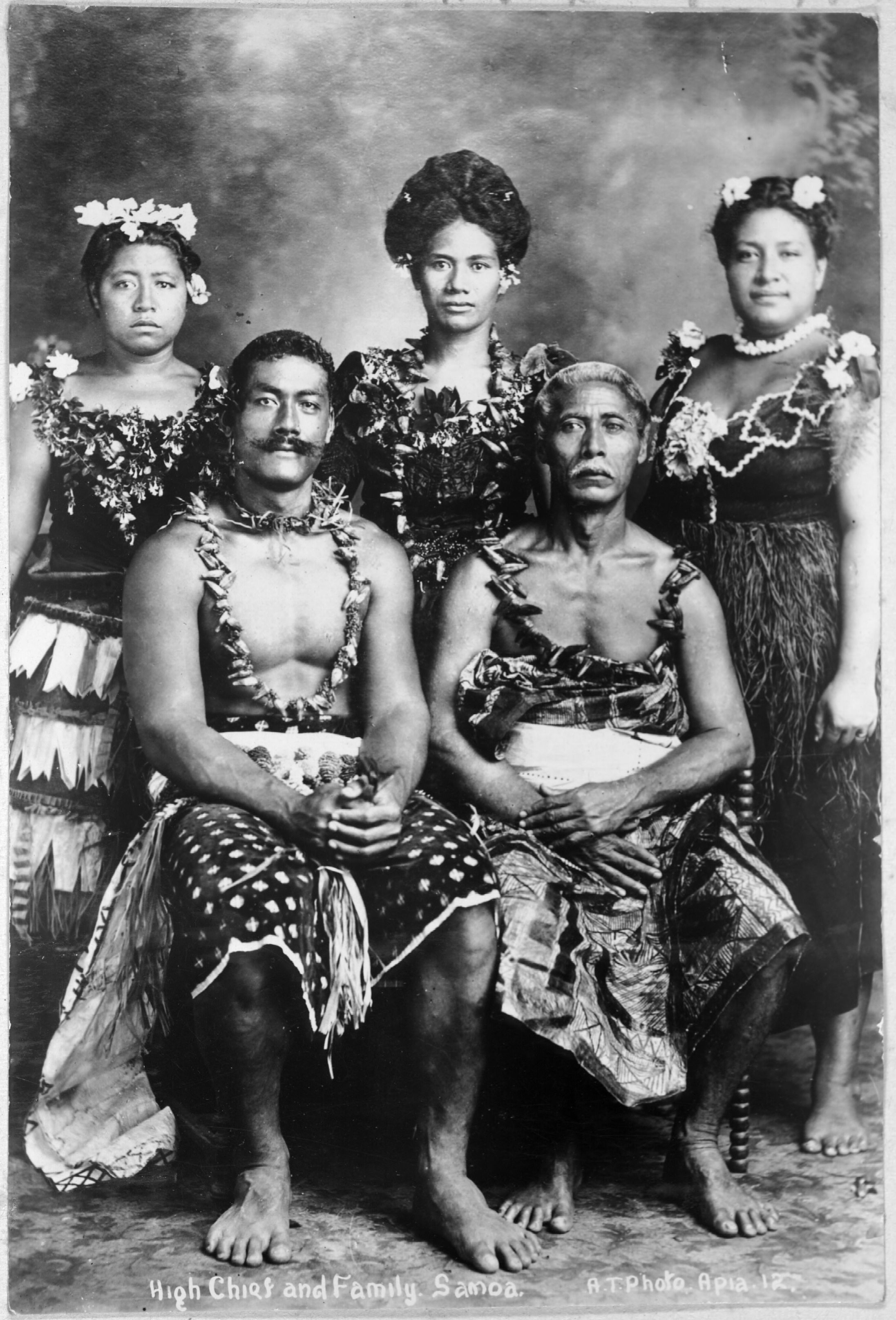 High Chief and family, Samoa, ca 1914. Reference Number: PA1-q-107-55-2. Photograph of the family of Faumuina, one of the important chiefs of the Faleata district near Apia, Savai'i, Western Samoa. Photographed by Alfred James Tattersall. Not to be confused with Mata'afa Faumuina Fiame Mulinu'u I.